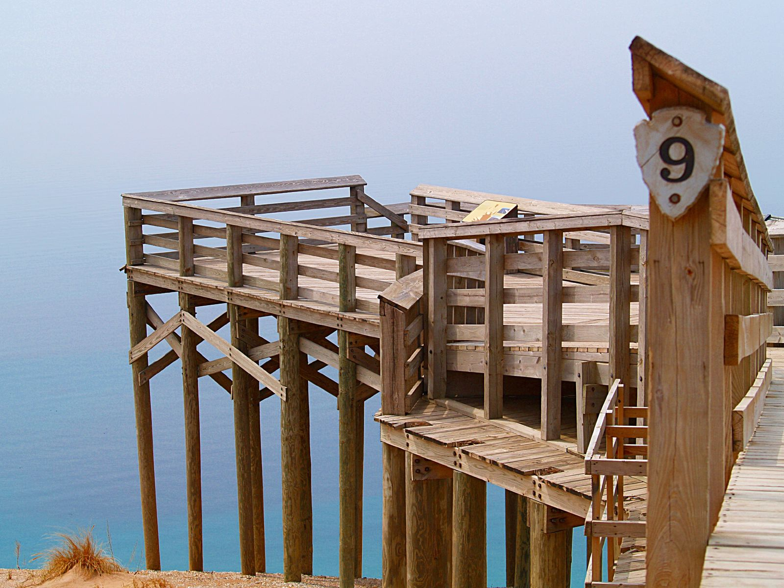 Pierce Stocking Scenic Drive no 9 overlook at Sleeping Bear Dunes National Lakeshore, Michigan